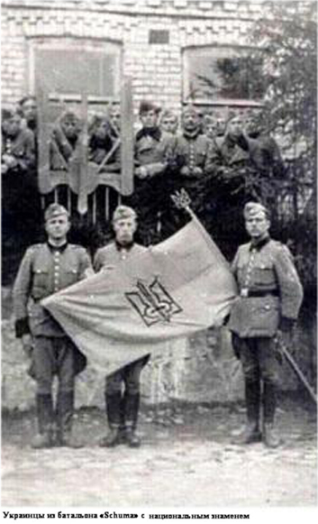 2nd company of the 115th Schutzmannschaft Battalion at the consecration ceremony of of the Ukrainian national yellow-blue flag. Dereczyn, Belorussia. October 31, 1943.